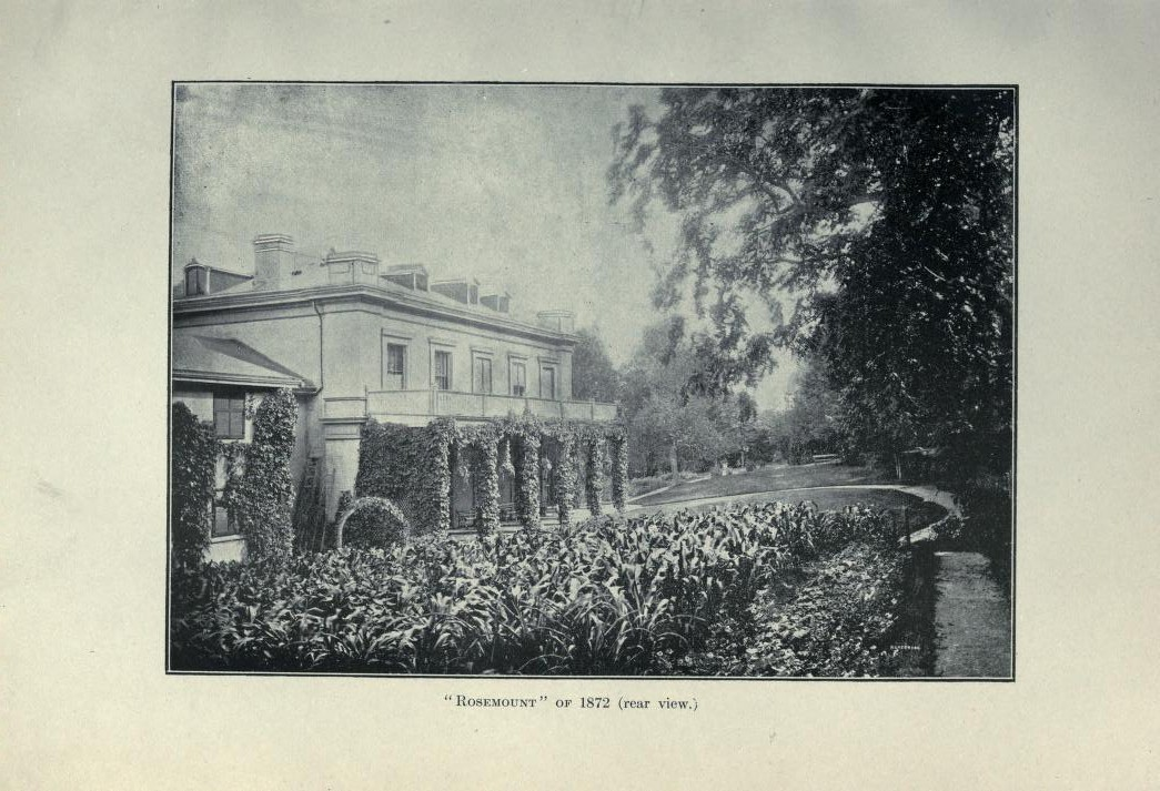 Rear view of Rosemount House, Montreal, 1872, soon after being purchased by William Watson Ogilvie